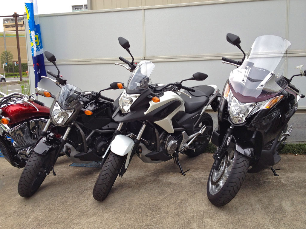 Honda NC700 Series - NC700S,NC700X and Integra